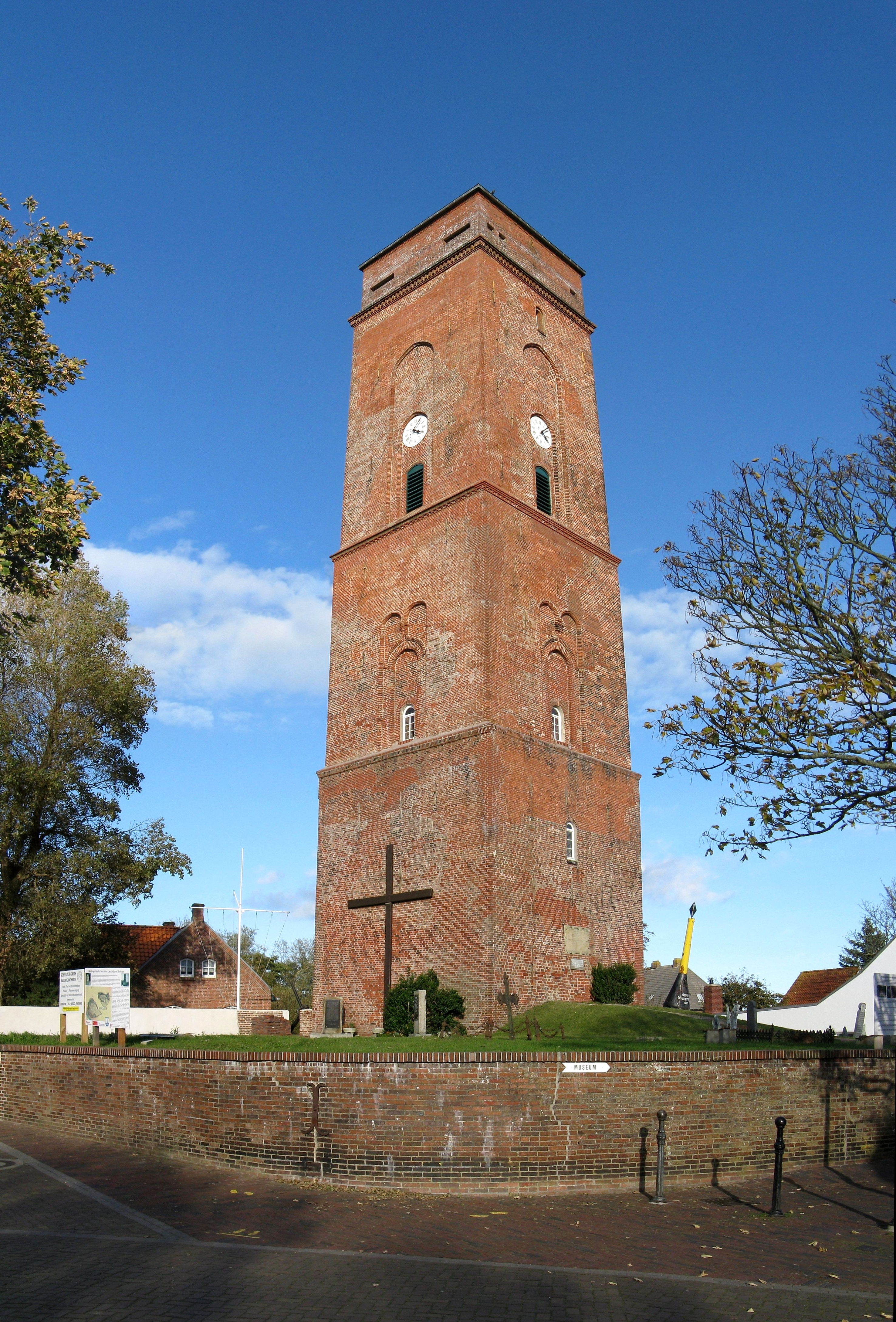 "Alter Leuchtturm" (old lighthouse) on the island of Borkum, Germany